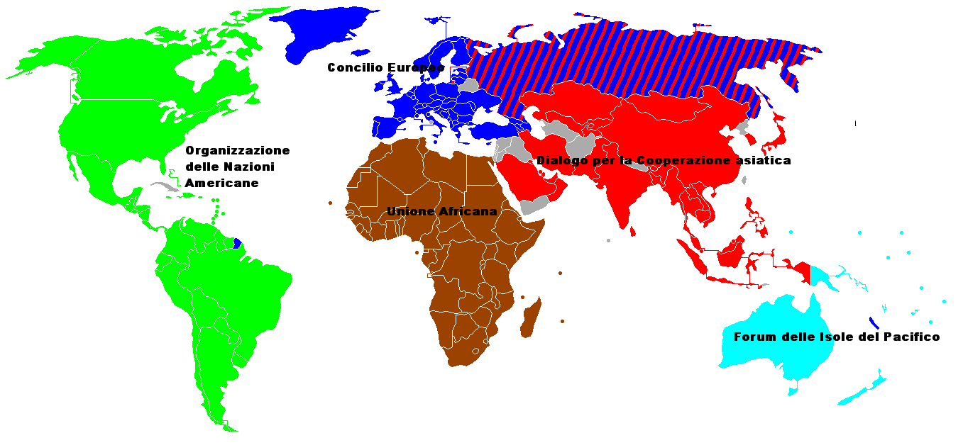 Map of international organizations grouping was the same continent.